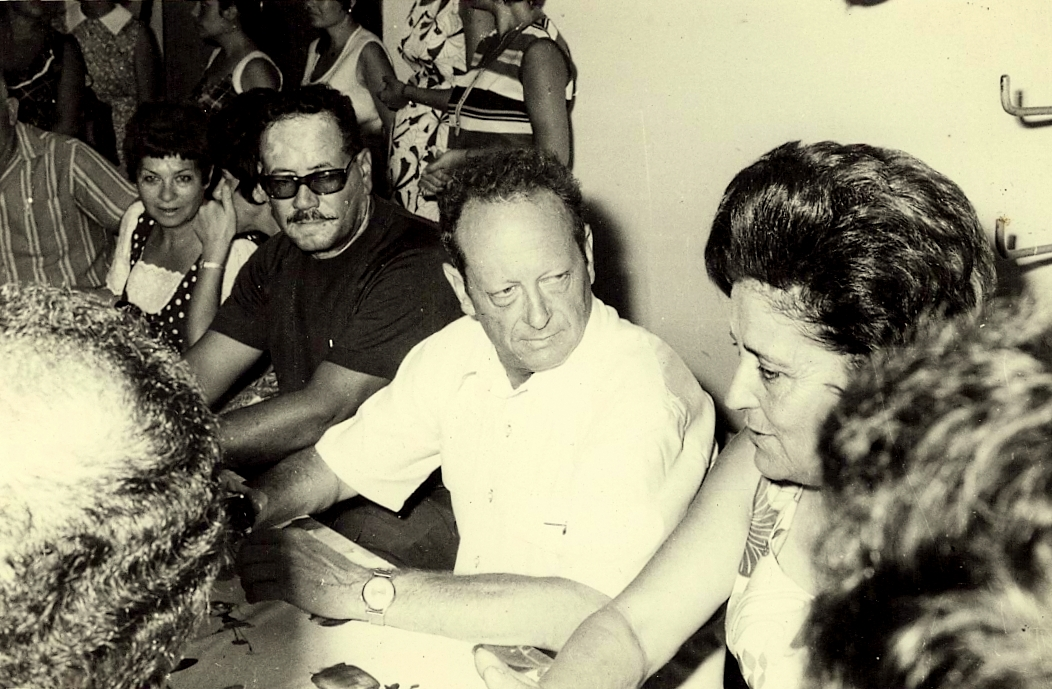 Igal Alon, People of Israel